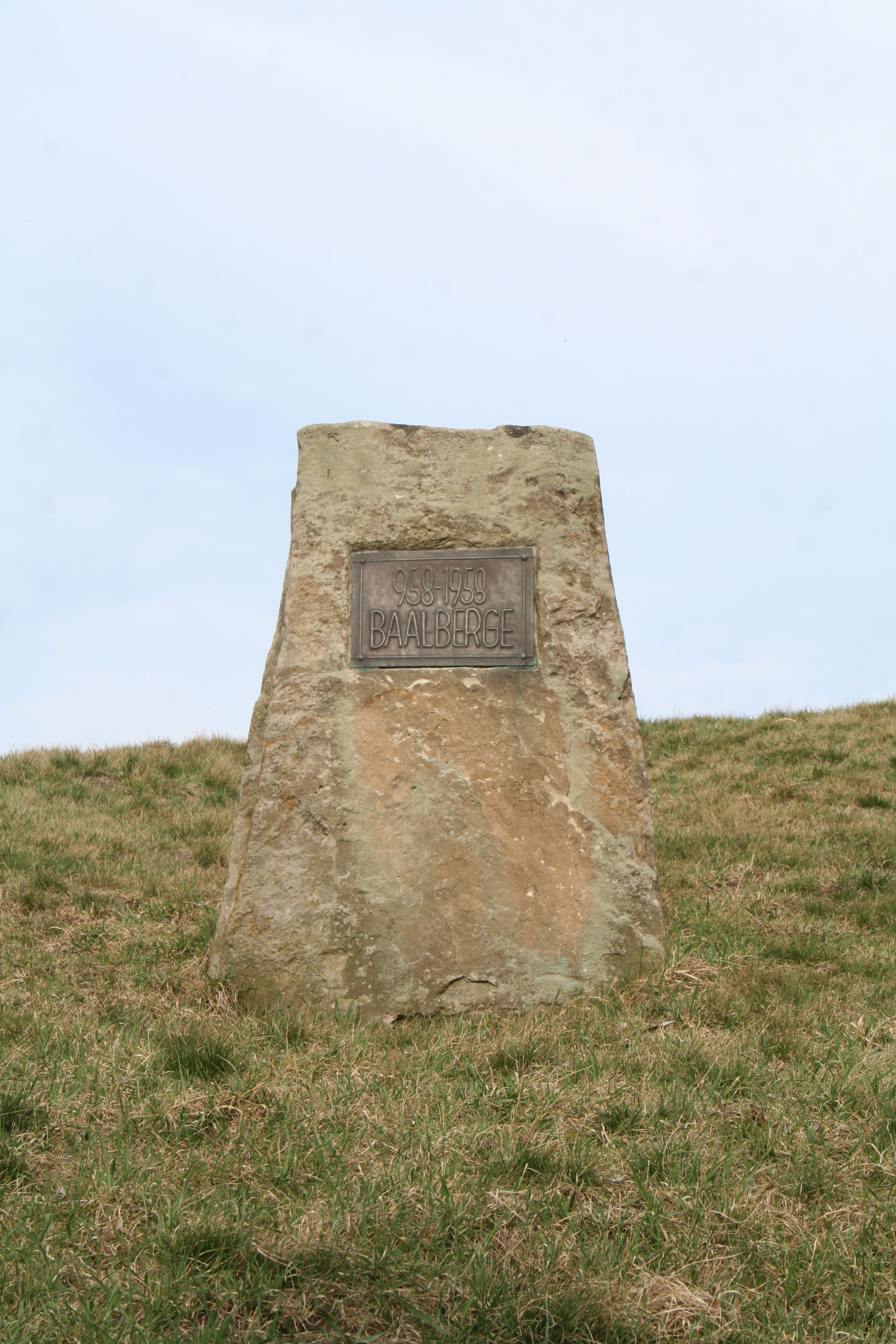 Schneiderberg, Baalberge